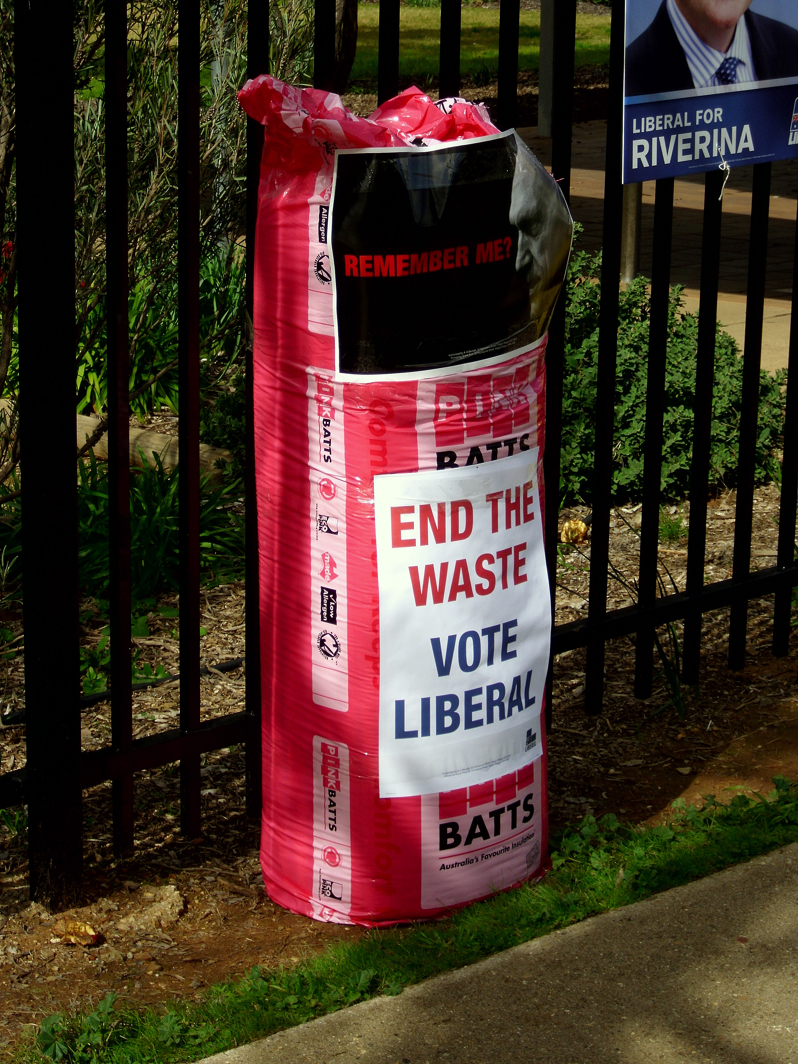 Liberal Party "pink batts" advert at a polling place in the Division of Riverina at the 2010 Australian federal election.